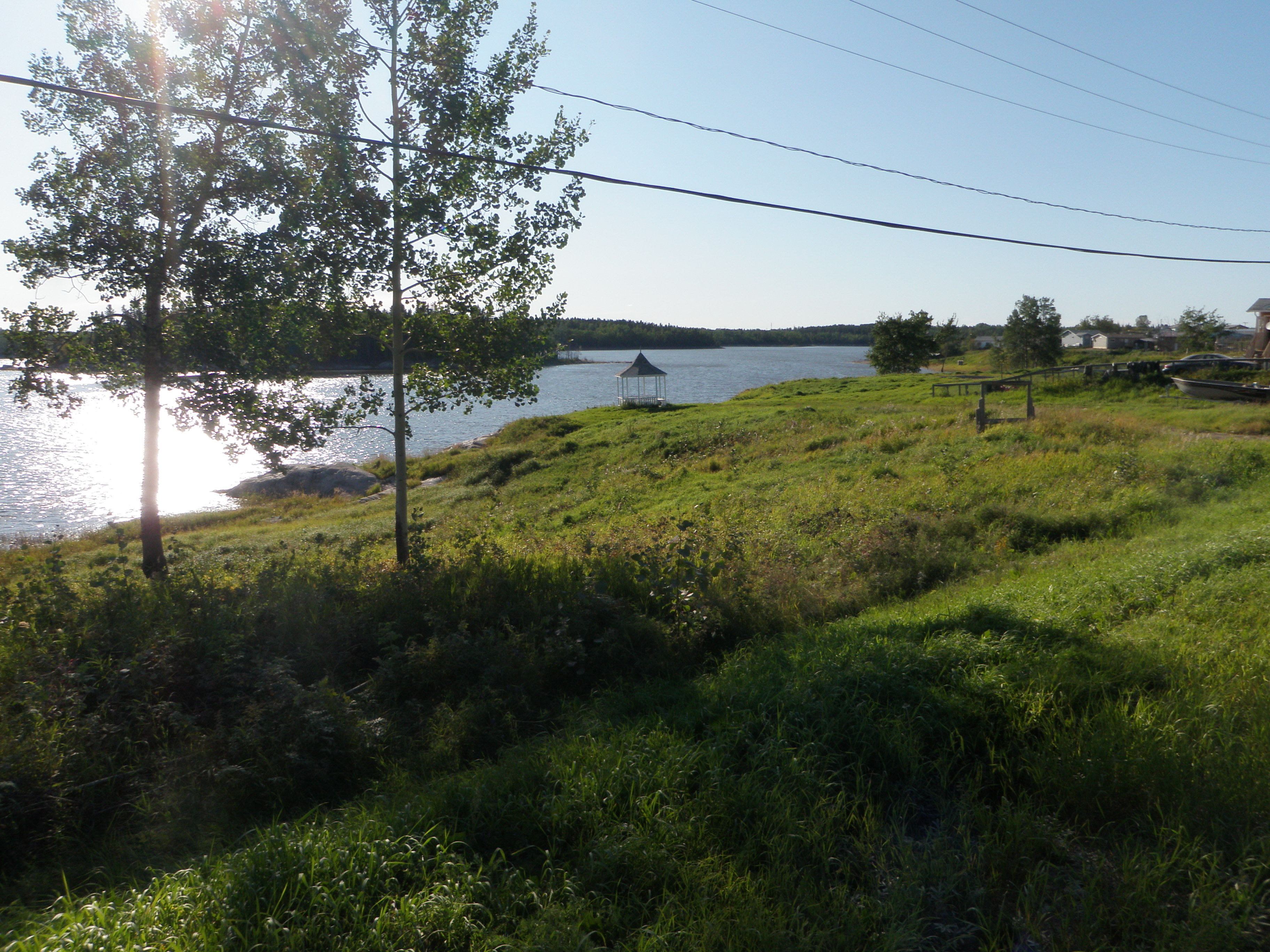 TESchmiidt. No copyright. Image of the Sandy Bay beach.